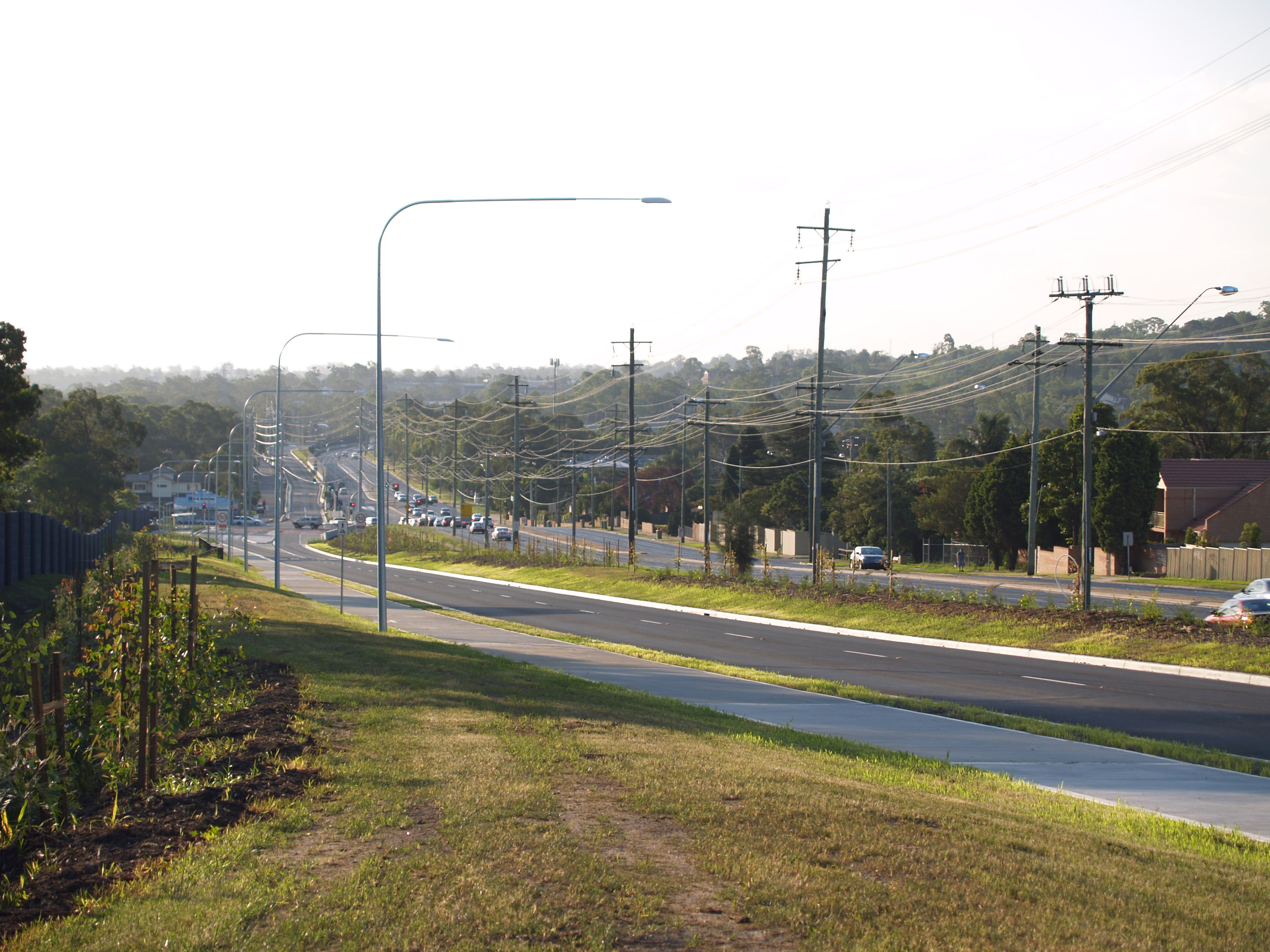 Photo of North-West T-way, Old Windsor Road near Fitzwilliam Road.